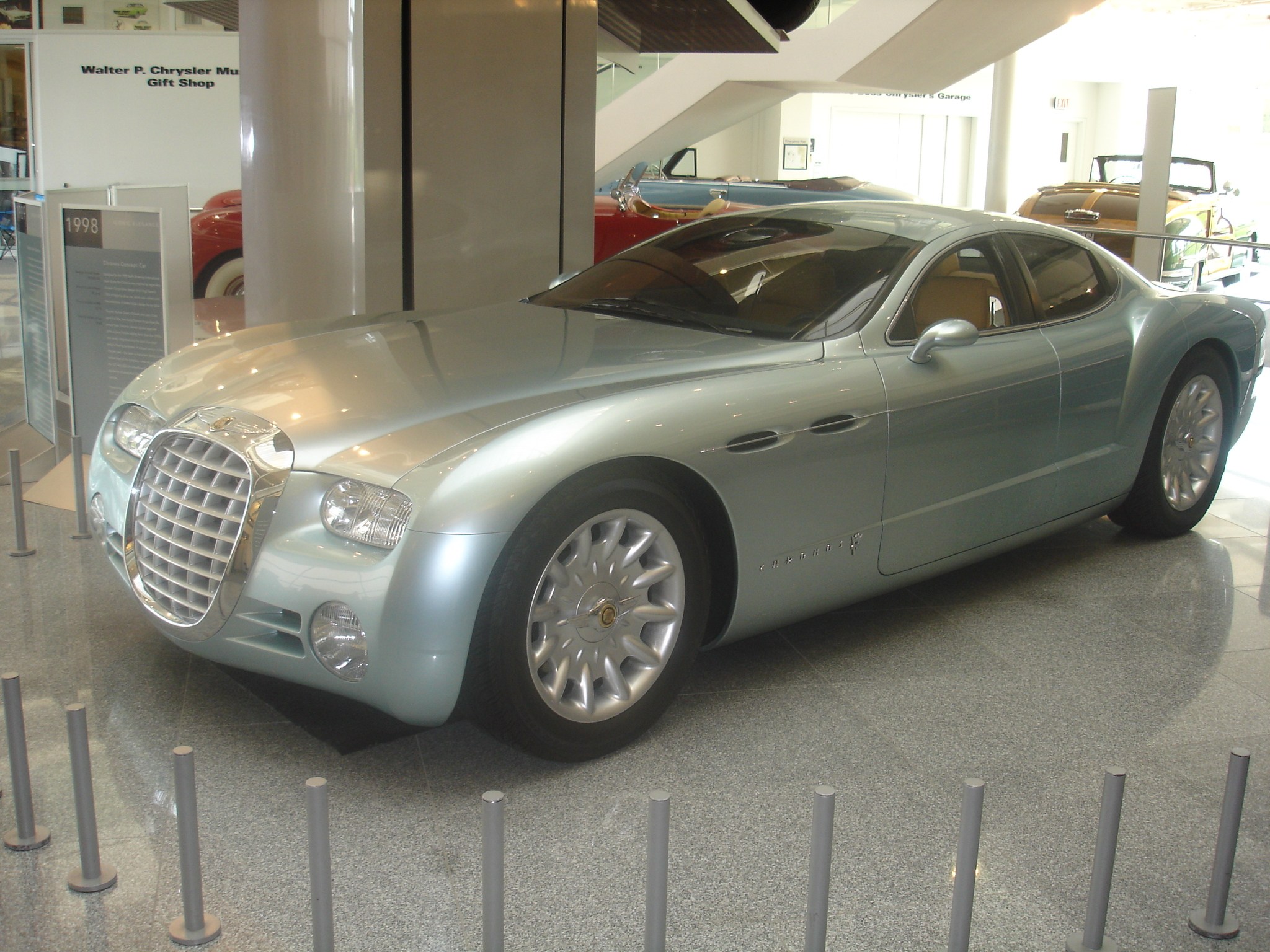 Chrysler Chronos Concept at the Walter P. Chrysler museum